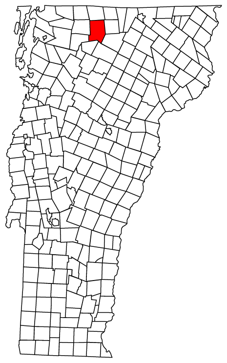 Description: Map of Vermont towns with Montgomery highlighted Source: Map created by Jared C. Benedict on 26 March 2004. Copyright: © Jared C. Benedict.